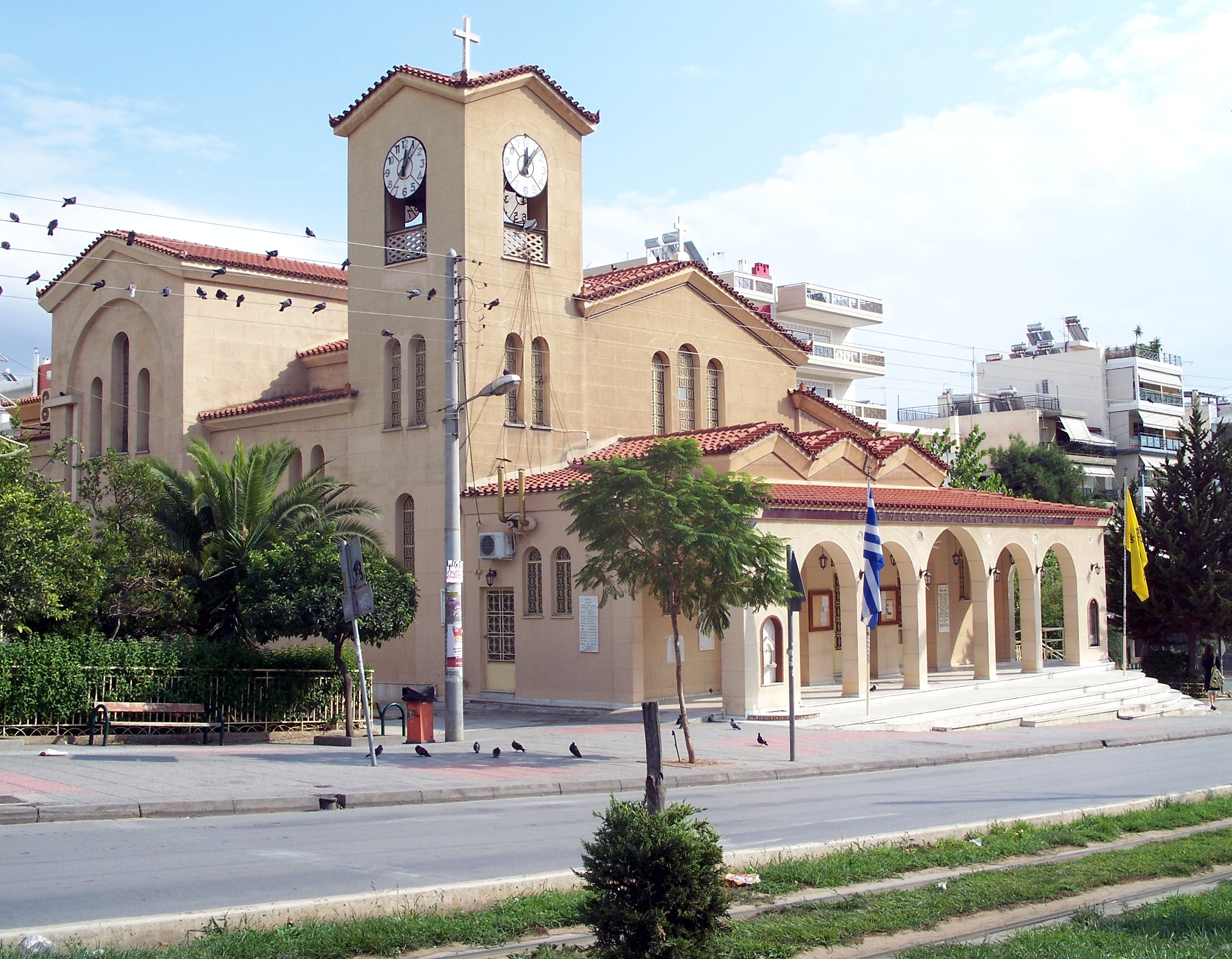 Church of Agia Paraskeyi at Nea Smyrni, Athens.